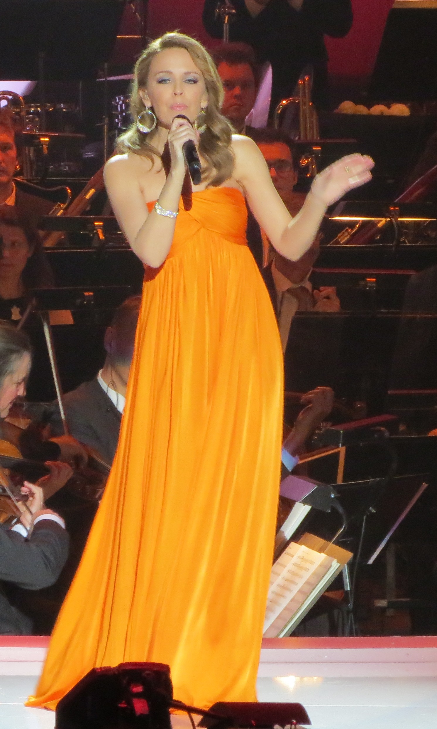 Photo from the 2012 Nobel Peace Prize Concert in Oslo Spektrum arena, Oslo, Norway. Hosts of the evening were Sarah Jessica Parker and Gerard Butler.